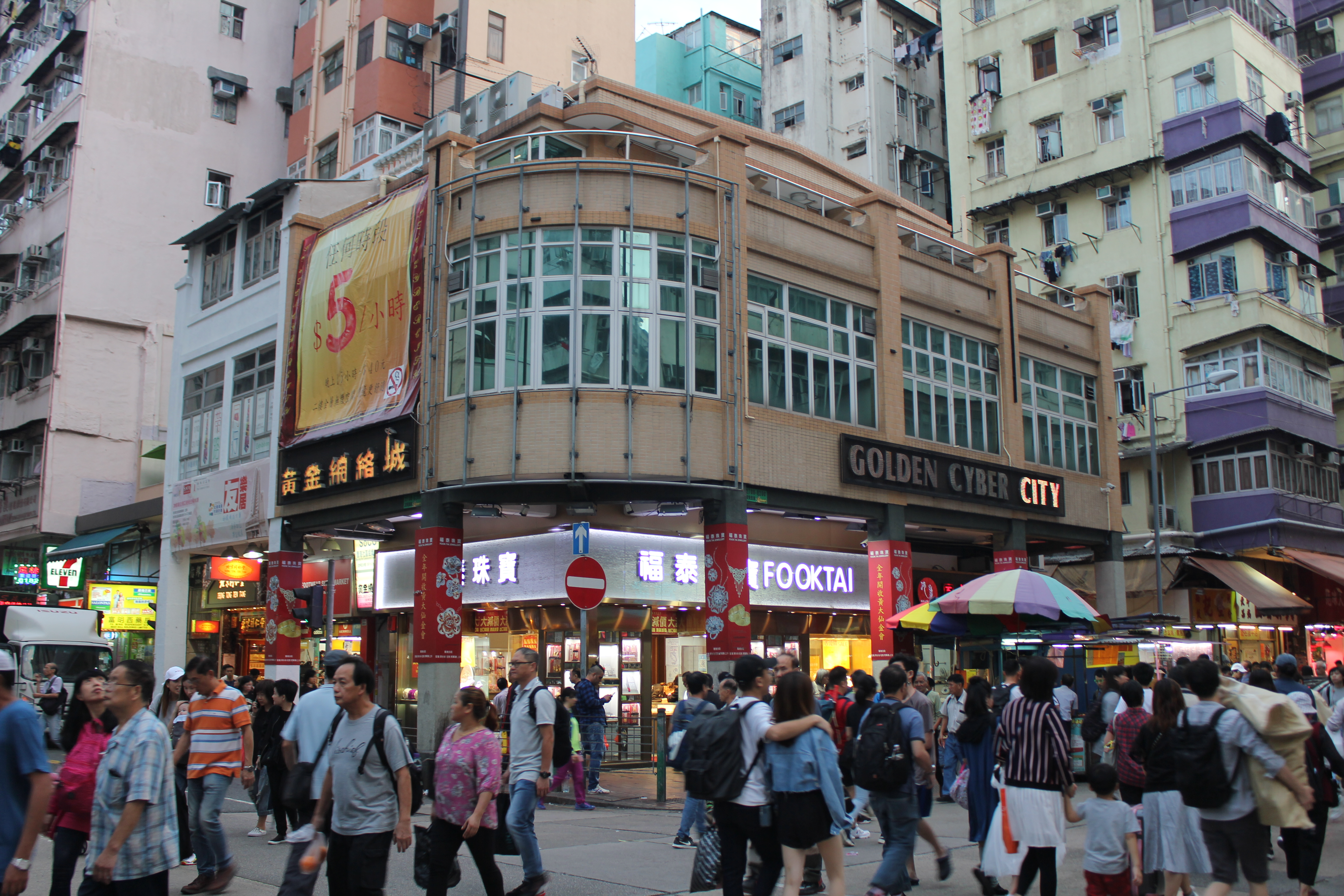 269 & 271 Yu Chau Street is a pre-war Tong Lau (Chinese Tenement) built in the 1920s. It is located at the intersection of Yu Chau Street and Kweilin Street in Sham Shui Po. It is now one of the three remaining round corner tenement houses in Hong Kong.